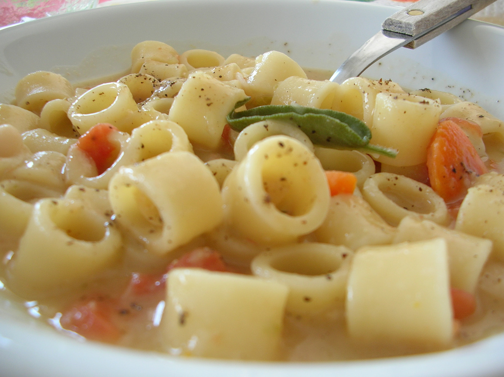 Quick pasta e fagioli, a traditional Italian soup